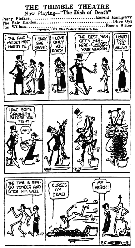 E.C. Segar's The Thimble Theater, "The Dish of Death", published in on december 1919.